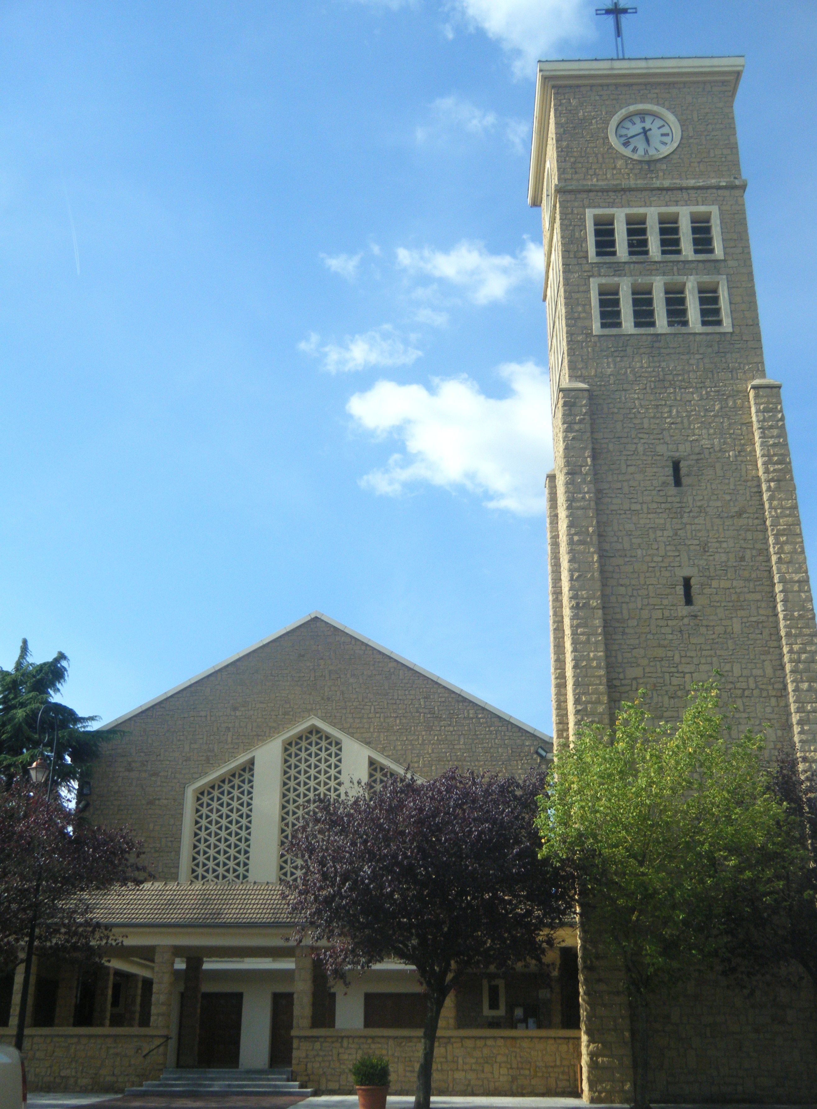 Description eglise Hagondange Date4 August 2011Sourcemon appareil photoAuthorAimelaimePermission (Reusing this file) eglise Hagondange